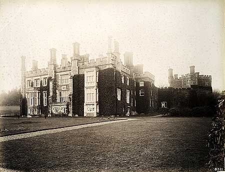 Eggesford House, Devon, view from the south-east. Built between 1820 and 1830 by Hon. Newton Fellowes, using contractor Thomas Lee of Barnstaple. It was abandoned in 1911, and became delapidated. This photograph was taken for the Earl of Portsmouth on 25 Jan 1888 by H. Bedford Lemere & Co., according to the firm's daybook. Bedford Lemere & Co was established by Bedford Lemere (1839-1911) in London in the 1860s. The firm undertook commissions from architects, builders, owners, interior decorators and furnishers. Lemere's son Henry (Harry) Bedford Lemere (1865-1944) joined the firm in 1881 and his work sealed the company's reputation as being the foremost architectural photographers of the period. (English Heritage. Collection: Bedford Lemere and Company NMR reference no.: BL08521)